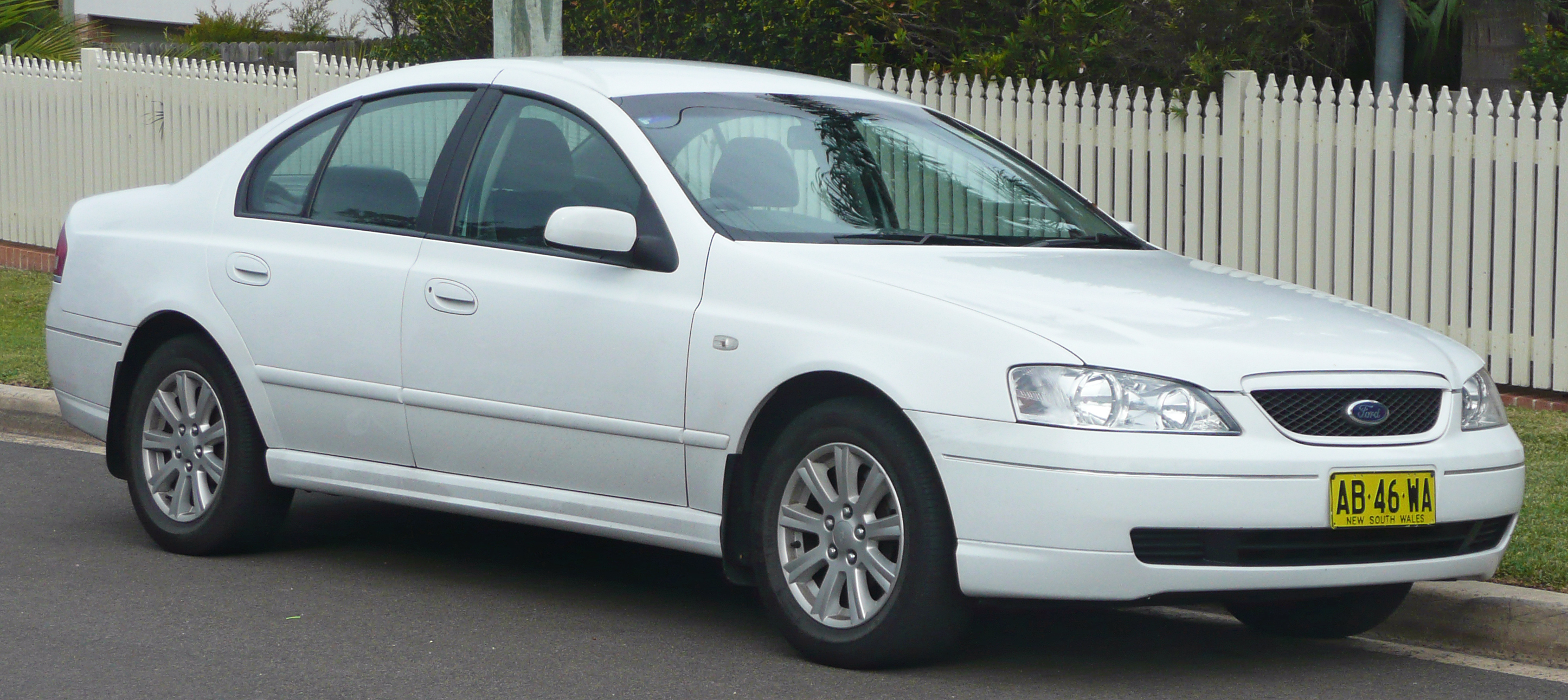 2004 Ford Falcon (BA II) Futura sedan. Photographed in Cronulla, New South Wales, Australia.